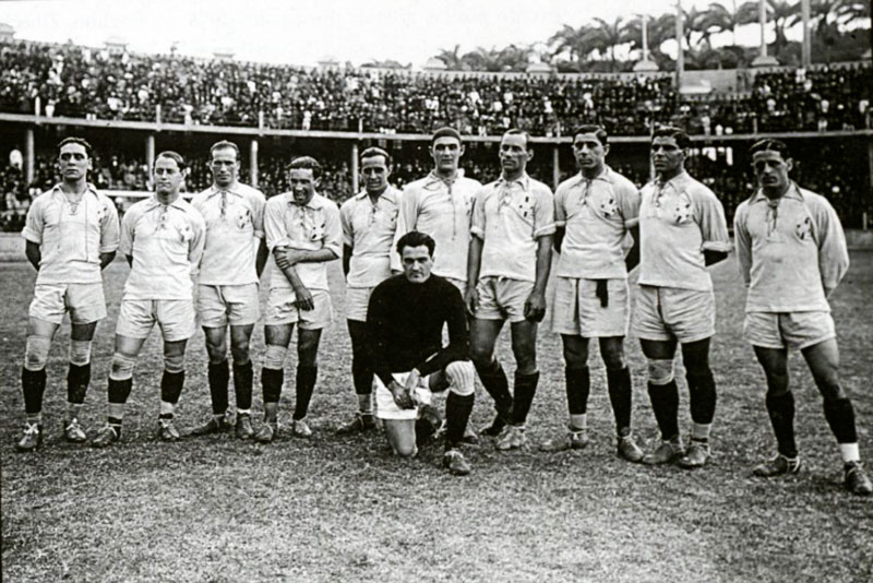 The Brazilian squad. (up): Fortes, Formiga, Neco, Bartó, Lais, Palamone, Amílcar, Heitor Domínguez, Tatu, Rodrigues. (down): Kuntz.